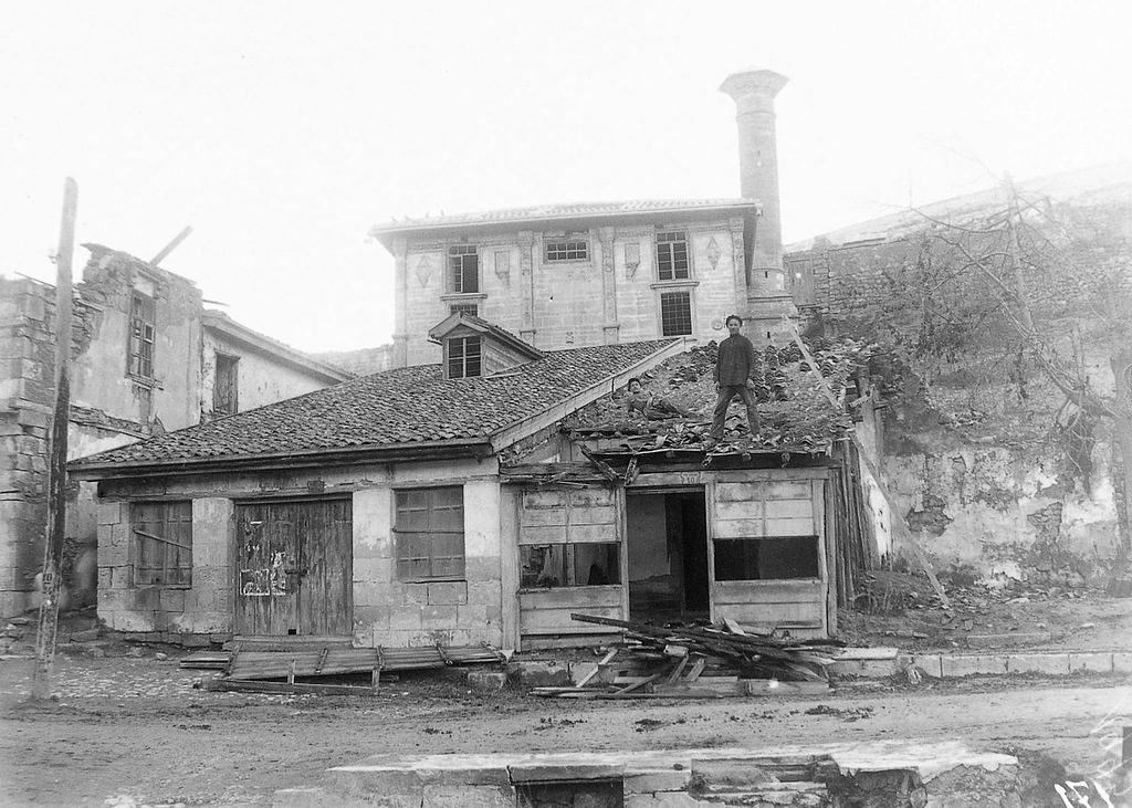 Єшиль-Джамі (Зелена мечеть)